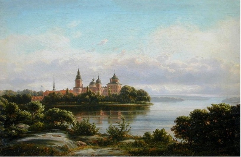 Castle Gripsholm made by Ferdinand Richardt 1869. Template for the book by Kurt Tucholsky.